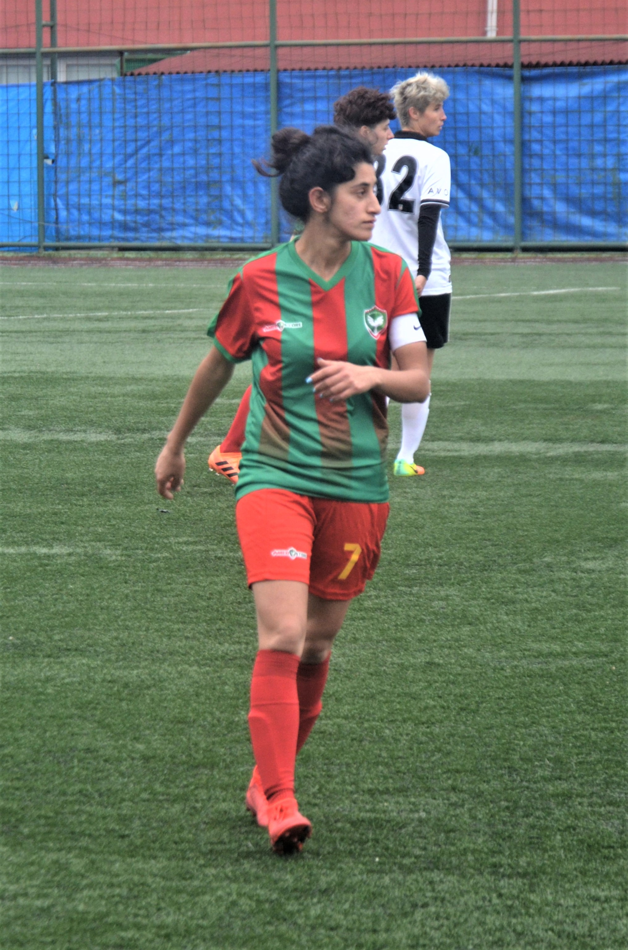 Güzide Alçu of Amed S.K. in the 2018-19 Turkish Women's First Football League.